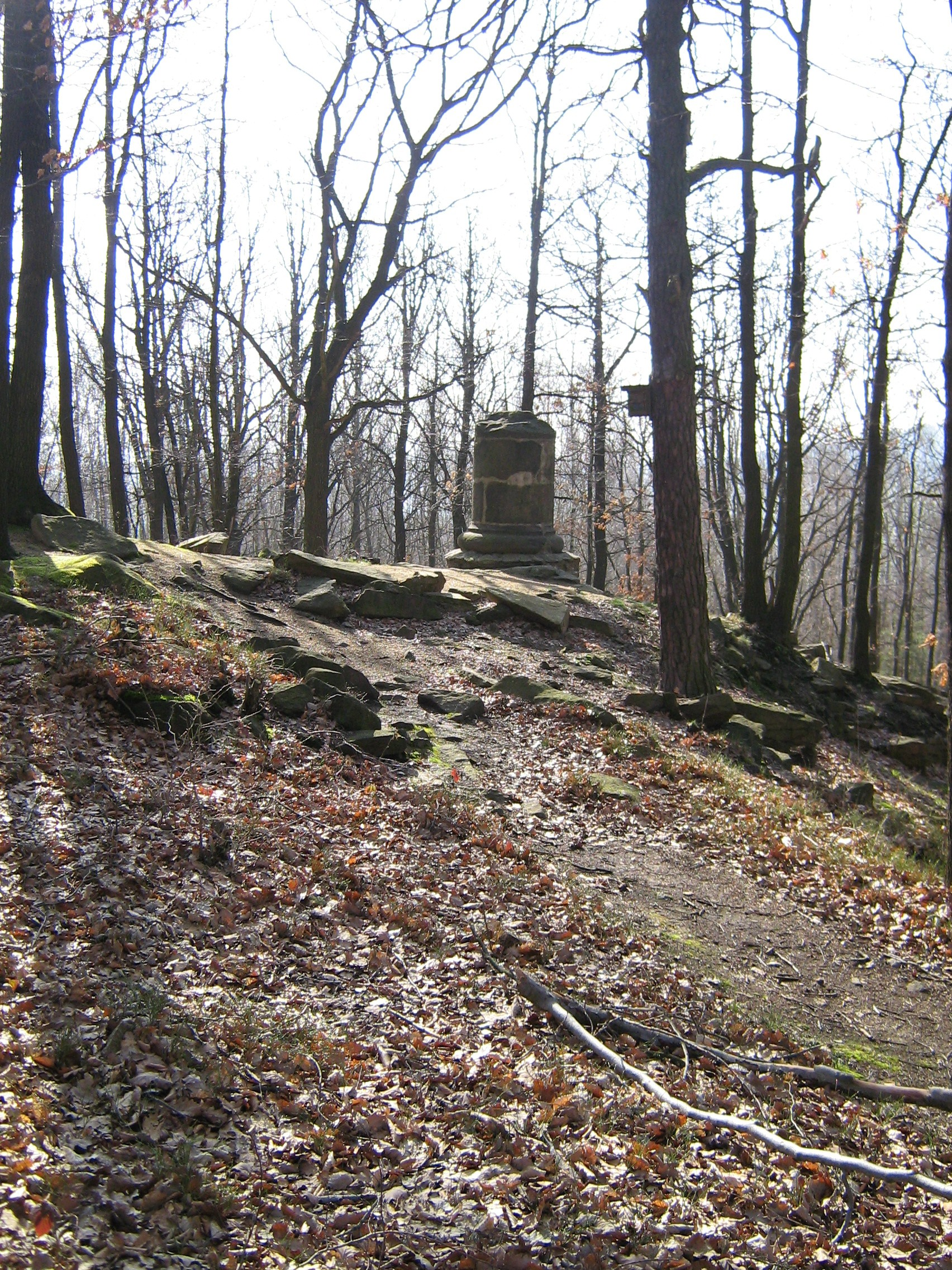 mountains Konigshainer Berge - The Memory column